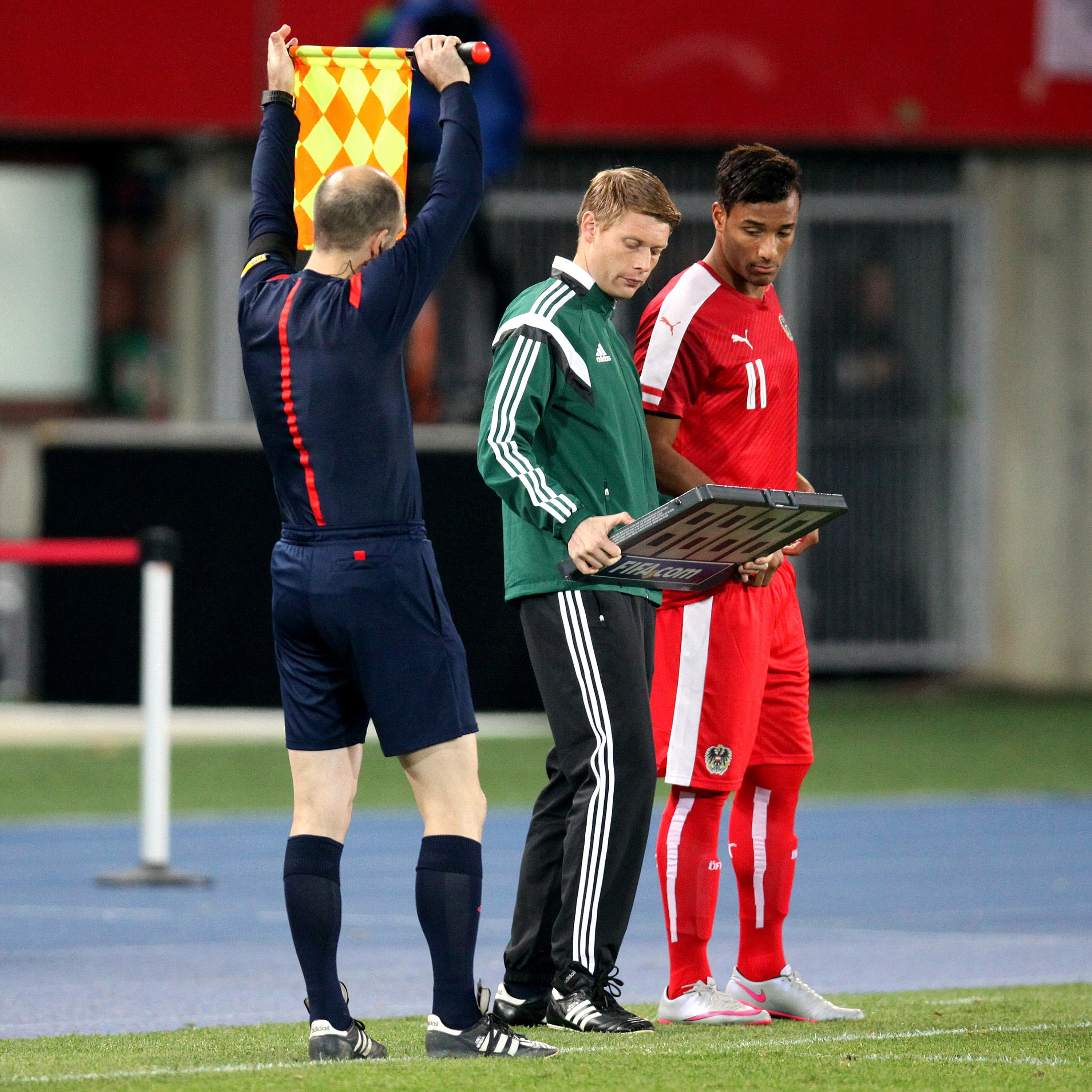 Friendly match – Austria (red shirts) vs. Switzerland (white shirts) 1-2 (1-2) – 2015-11-17 in Vienna, Ernst-Happel-Stadion – The photo shows (from left to right) assistent referee Mike Pickel, fourth official Christian Dingert and Karim Onisiwo.